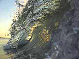 Breaking wave photographed in Brigantine, New Jersey Surf, Glassy, Atlantic Photograph by Ole Kils